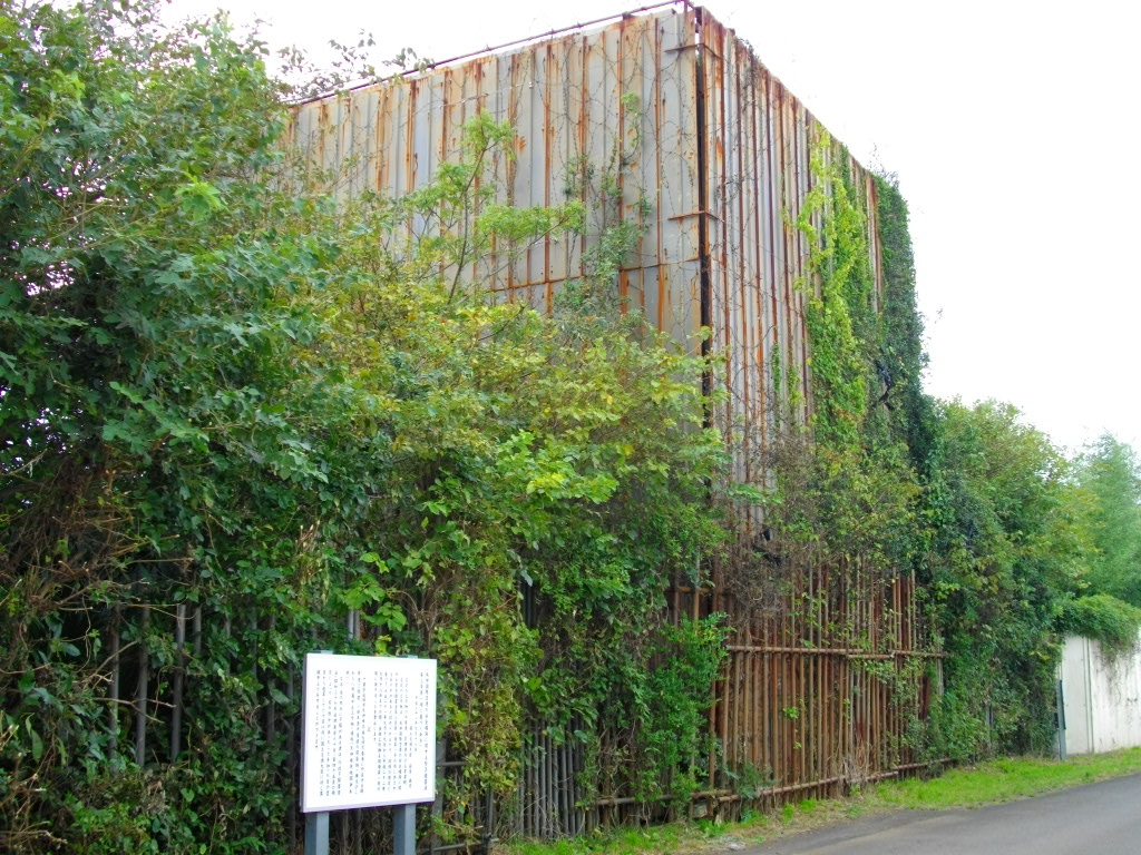 Tenjinmine Genchi-Toso Honbu (literally "Tenjinmine Struggle Headquarters")